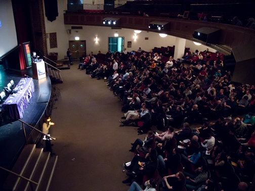 Northeast Conference on Science and Skepticism (NECSS) Audience From 2011 at Baruch College (CUNY)